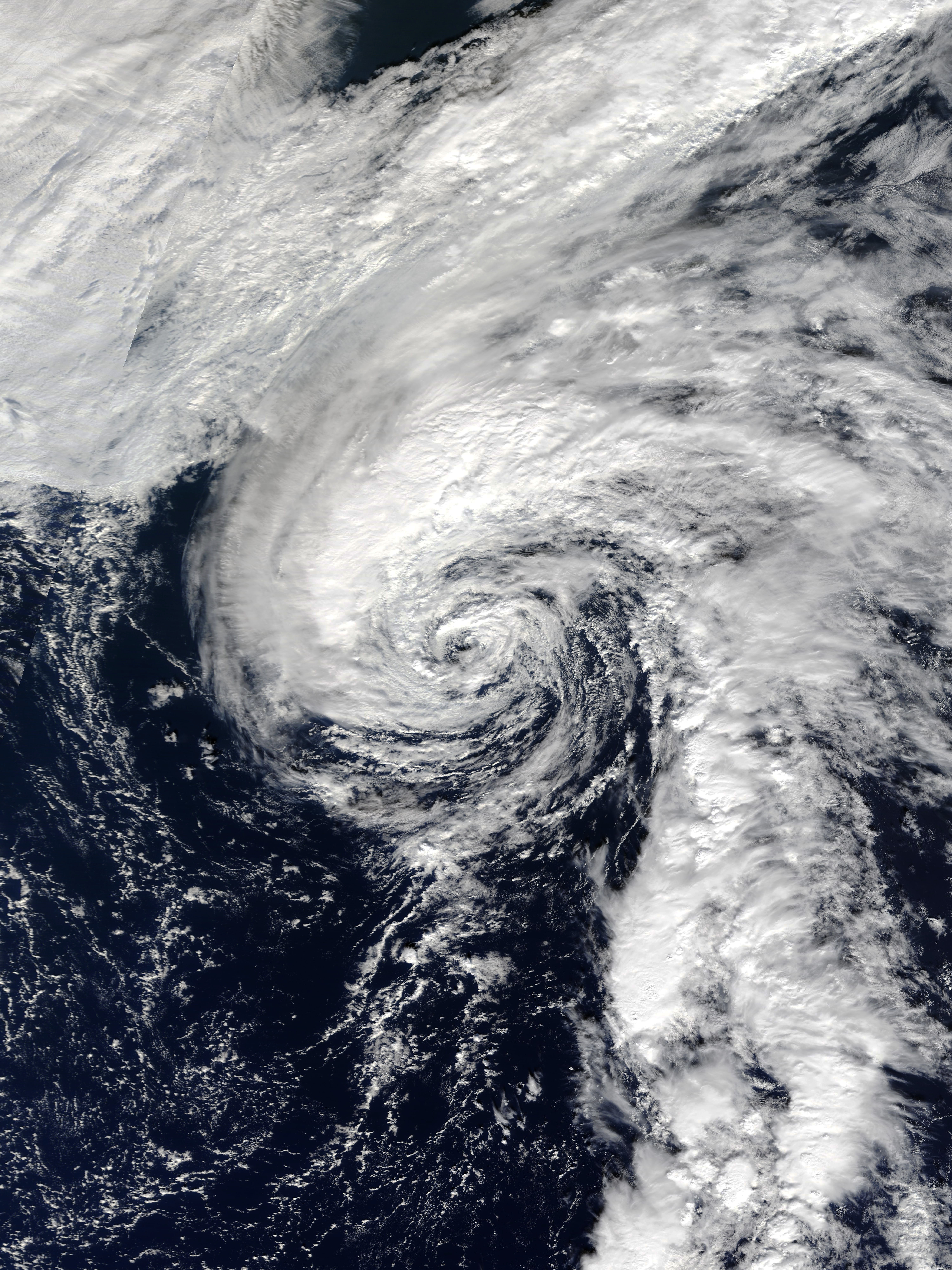 Tropical Storm Rina (19L) in the Atlantic Ocean